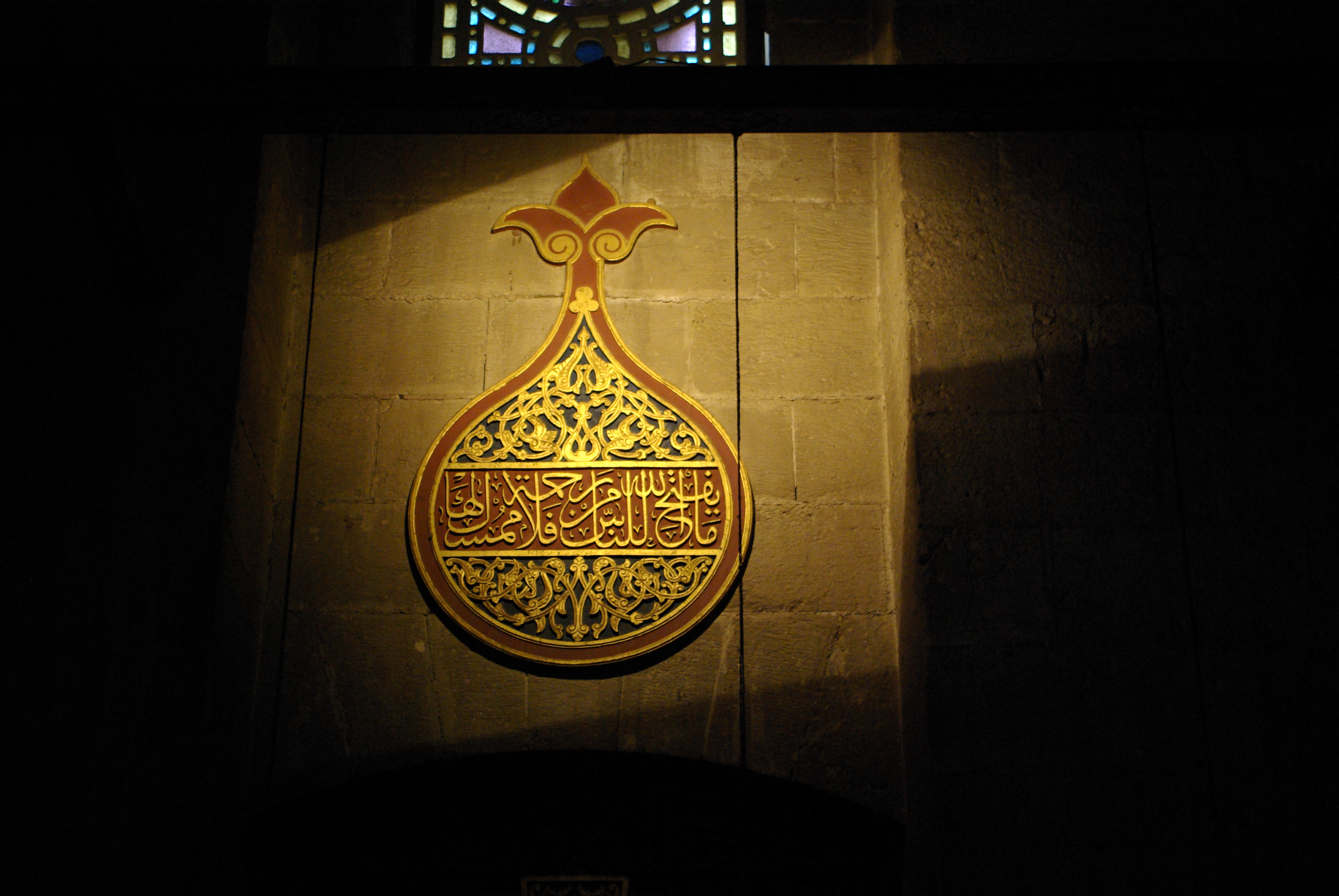 Cairo, Al-Rifa'i Mosque, Qur'an, Sura 35, first sentence: «Whatever Allah grants to men of (His) mercy, there is none to withhold it»